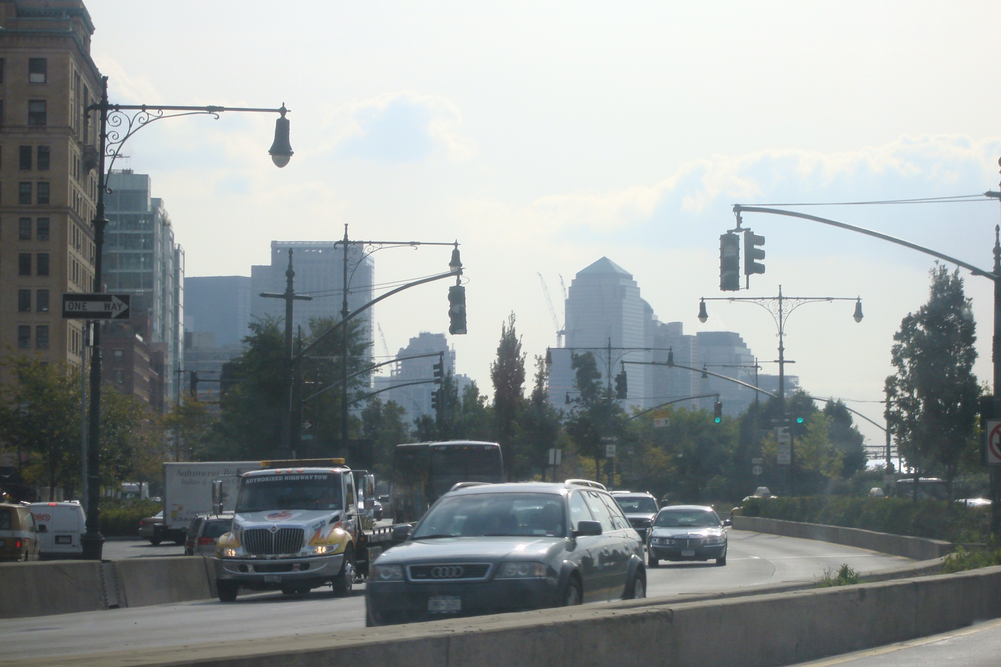 West Side Highway